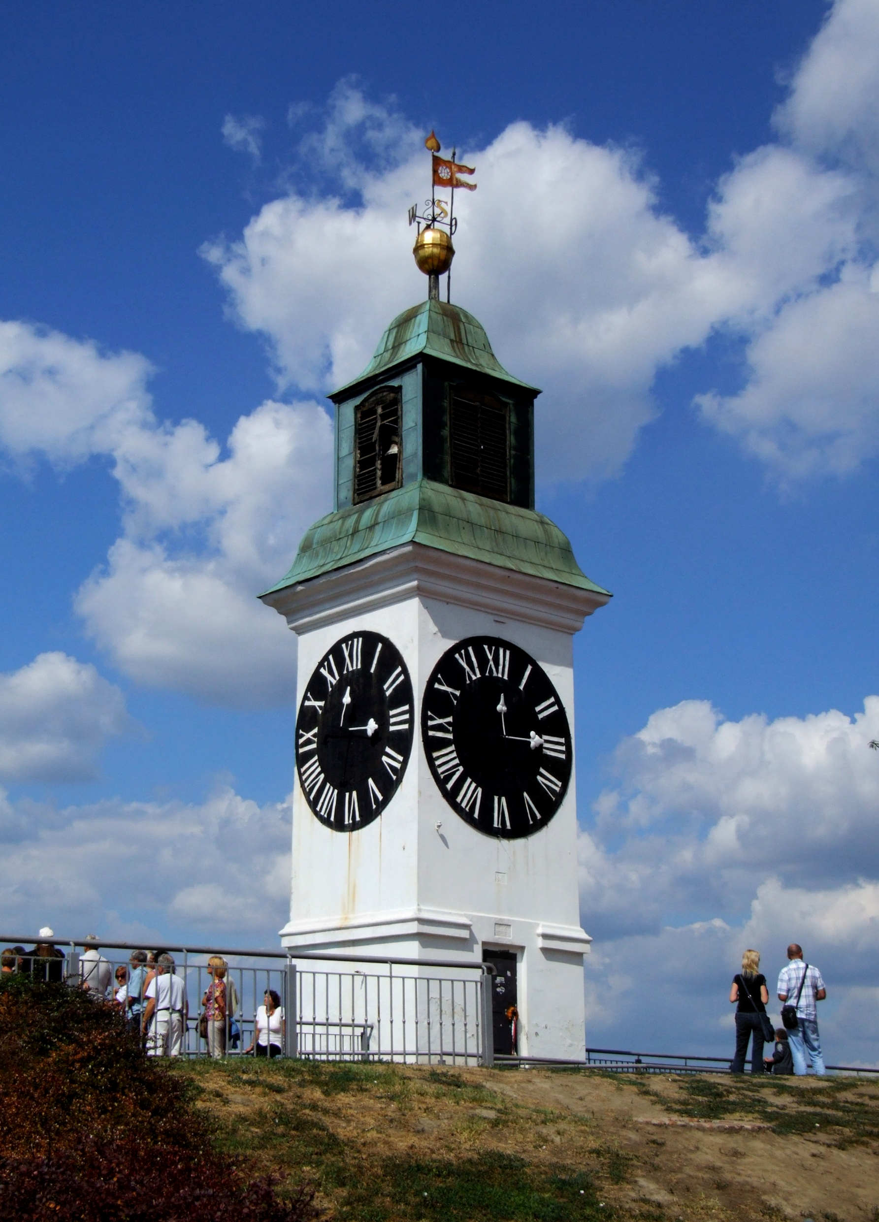 Petrovaradin Fortress, Vojvodina - clock tower